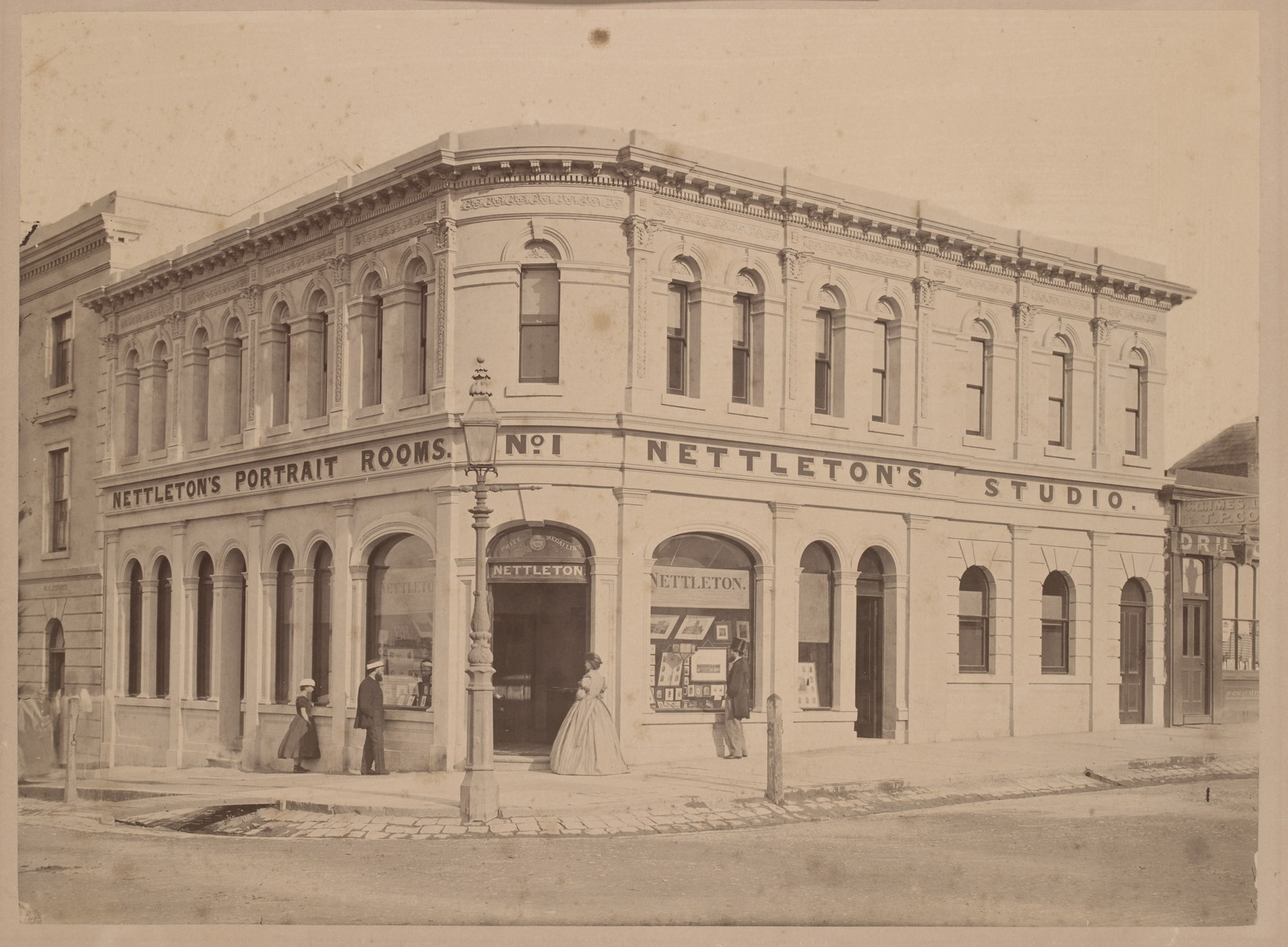 Shows the exterior of Charles Nettleton's studio, on the corner of Madeline Street (now Swanston Street north) Carlton. Albumen silver photograph; 27.3 x 36.9 cm, on mount 30.8 x 40.5 cm. State Library Victoria (Australia) H5199